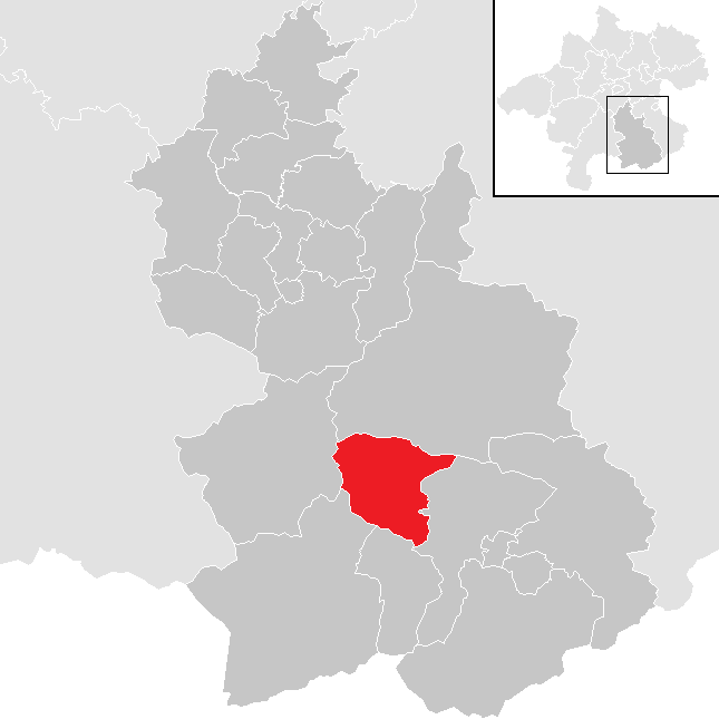 district Kirchdorf an der Krems